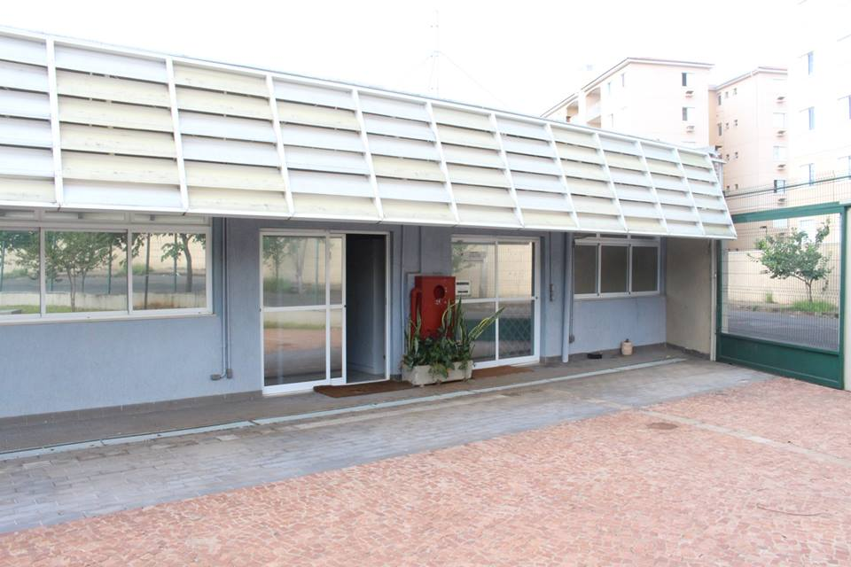 Fachada da Secretaria do IARTE, Bloco 3E